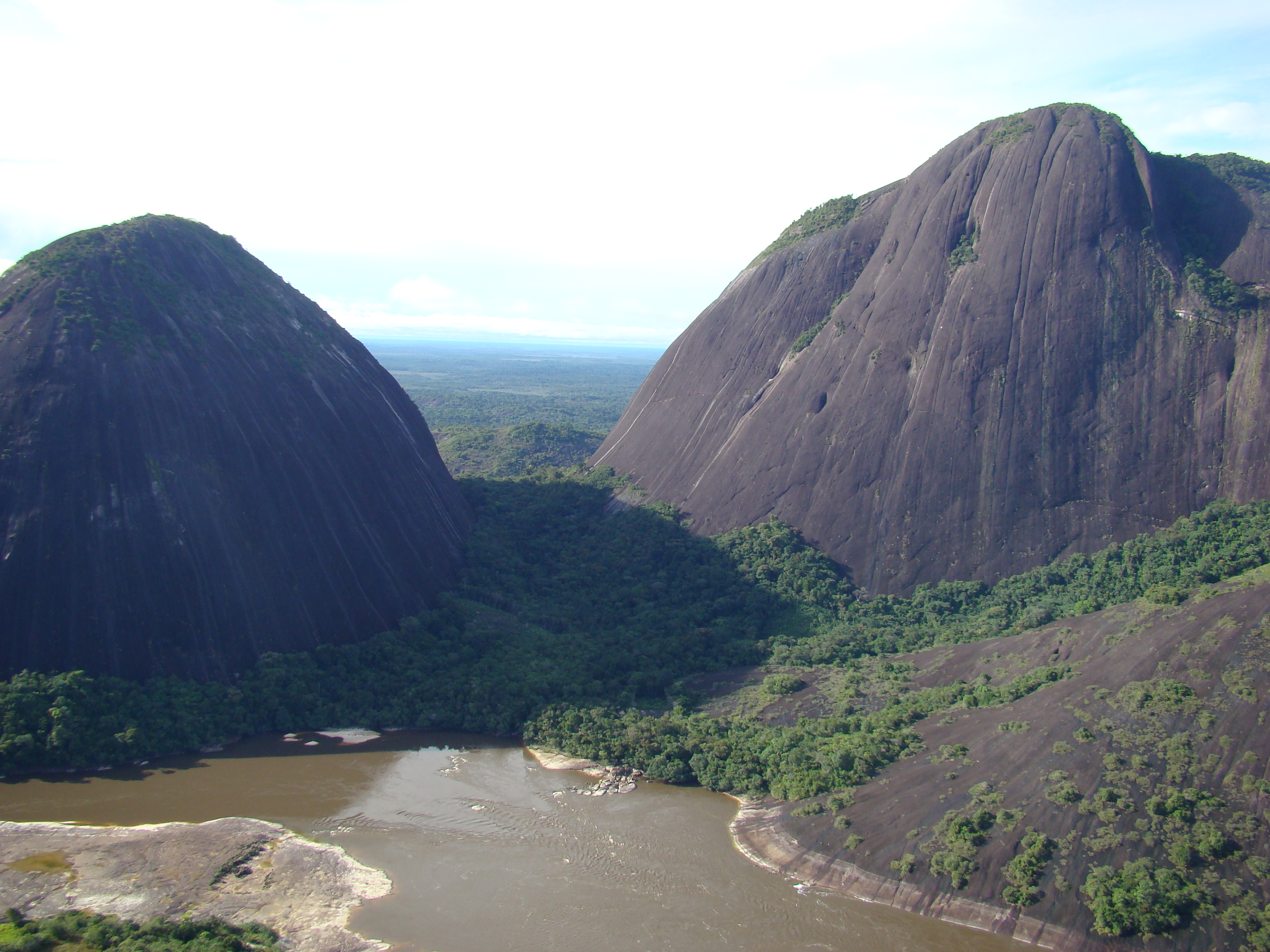 The Cerros de Mavecure, located 50 km south of Inírida, on the river of the same name. From left to right, Cerro Mono (480m) and Cerro Pajarito (712m).